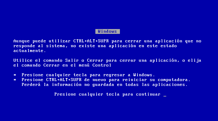 The blue screen that appears when Control + Alt + Delete is pressed in the Spanish version of Windows 3.1, in 386 enhanced mode.